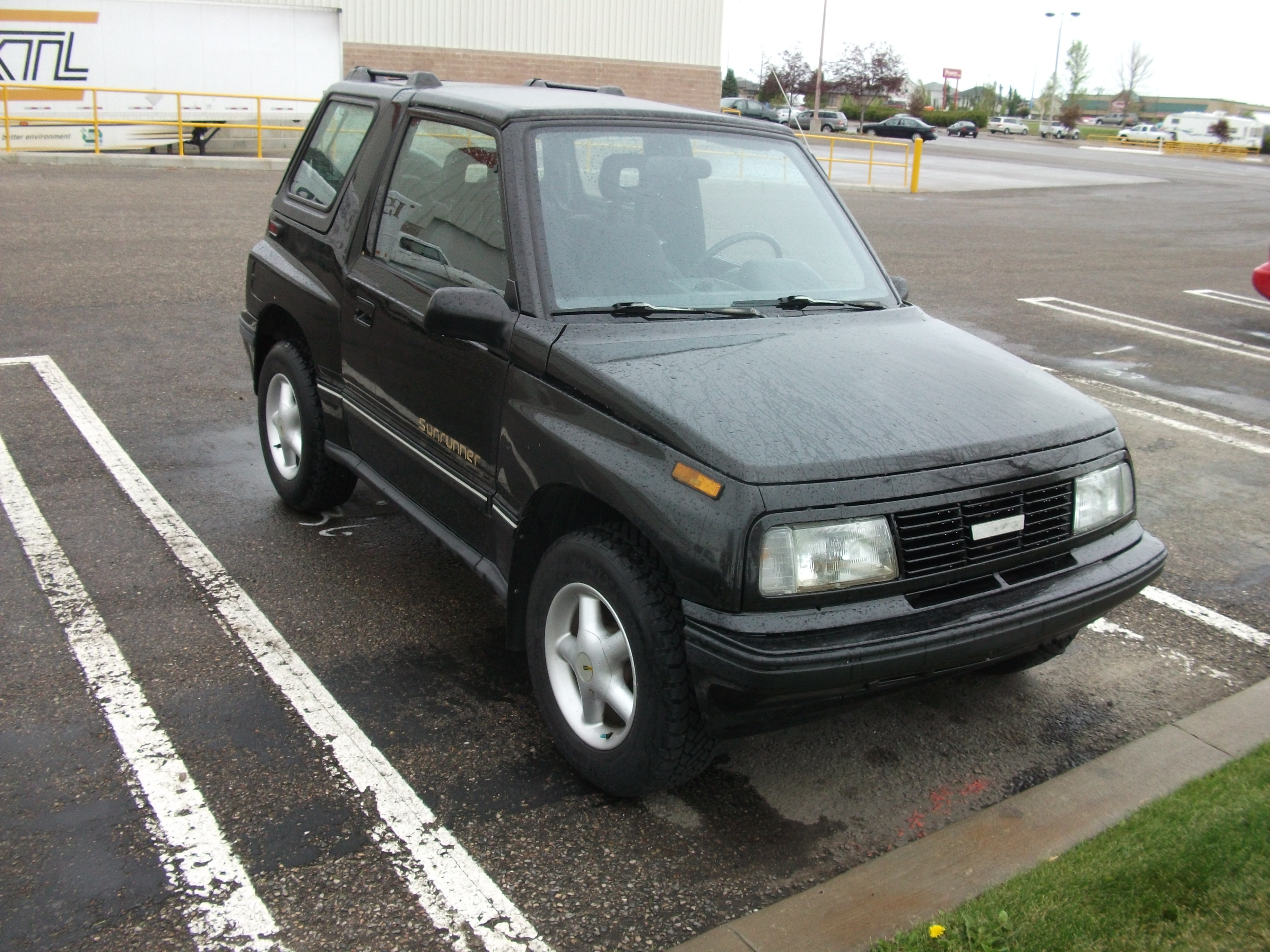 The Asuna Sunrunner was a Canadian only variant on the Suzuki Sidekick that was sold at Pontiac dealerships. It was later sold as the Pontiac Sunrunner when the Asuna brand was stopped.